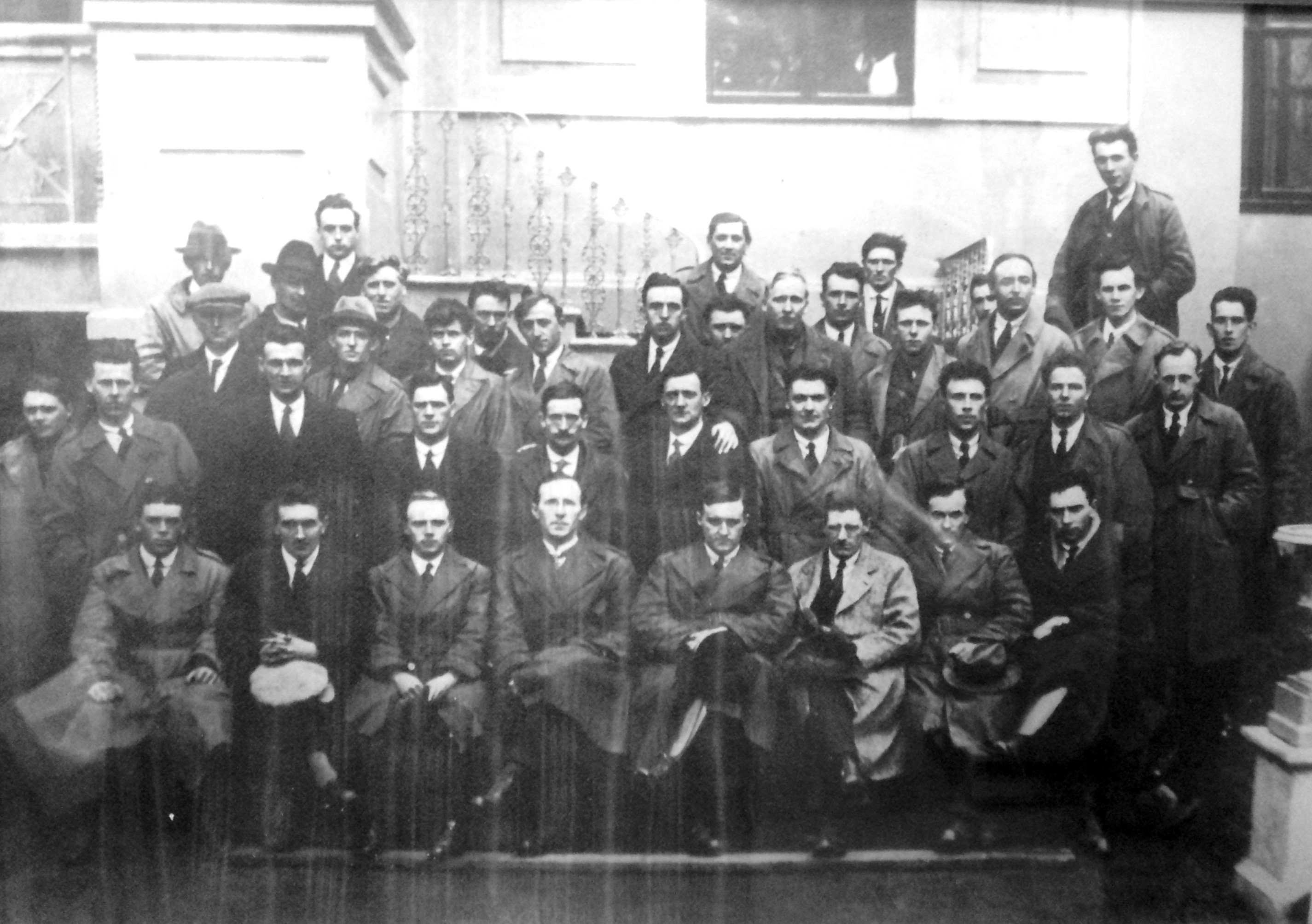 Liam Lynch with some of his Divisional Staff and Officers of the Brigades including the 1st Southern Division who attended as delegates to the Army Convention at the Mansion House, Dublin, on 9 April 1922. Front: Sean Lehane, Tom Daly, Florrie O'Donoghue, Liam Lynch, Liam Deasy, Sean Moylan, John Joe Rice, Humphrey Murphy. Second: Denis Daly, Jimmy O'Mahony, George Power, Michael Murphy, Eugene O'Neill, Sean McSwiney, Dr Pat O'Sullivan, Jim Murphy, Moss Donegan, Gerry Hannifin. Third: Jeremiah Riordan, Michael Crowley, Dan Shinnick, Con Leddy, Con O'Leary, Tom Hales, Jack O'Neill, Sean McCarthy, Dick Barrett, Andy Cooney. Fourth: Tom Ward, John Lordan, Gibbs Ross, Tadgh Brosnan, Dan Mulvihill, Denis McNeilius. Back: Con Casey, Pax Whelan, Tommy McEllistrim, Michael Harrington.